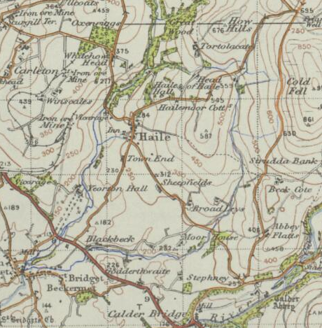 An historical map of Haile during the 20th century.